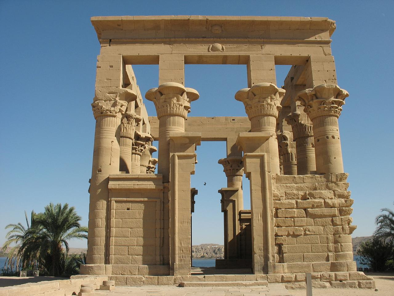 Trajan's Kiosk is one of the most popular Ancient Egyptian buildings with foreign tourists. This elegant kiosk was originally situated at Philae in Upper Egypt and is widely considered to be one of the most beautiful of Egypt's numerous architectural monuments. Dating to the Roman period of rule in Egypt, it is believed to have been erected by Emperor Trajan. This kiosk is today located on Agilika Island.